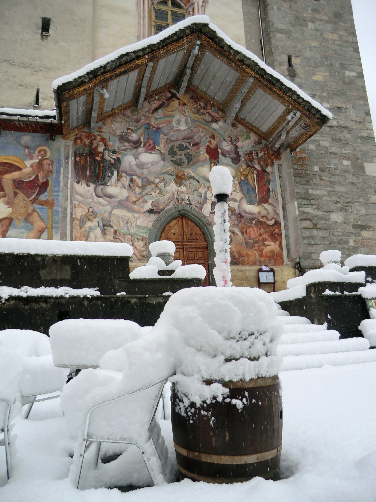 the "giudizio universale" universal judgement fresco on Saint Micheal parish church, Riva Valdobbia